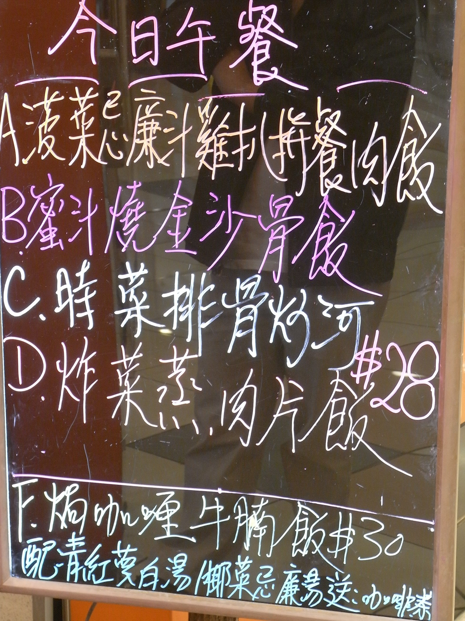 長沙灣zh:幸福邨 幸福商場 君日餐廳